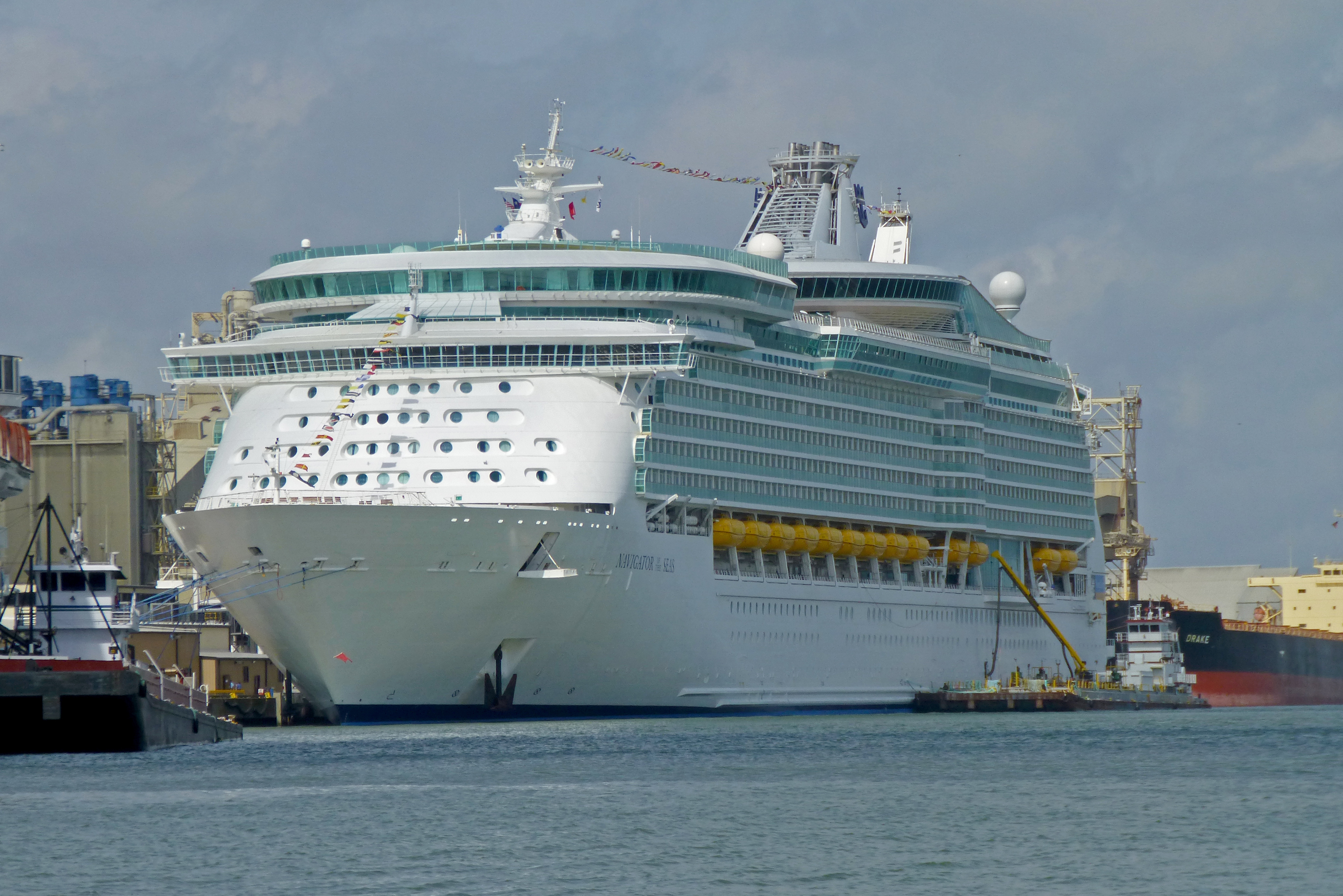 MS Navigator of the Seas docked in Galveston in May 2014.